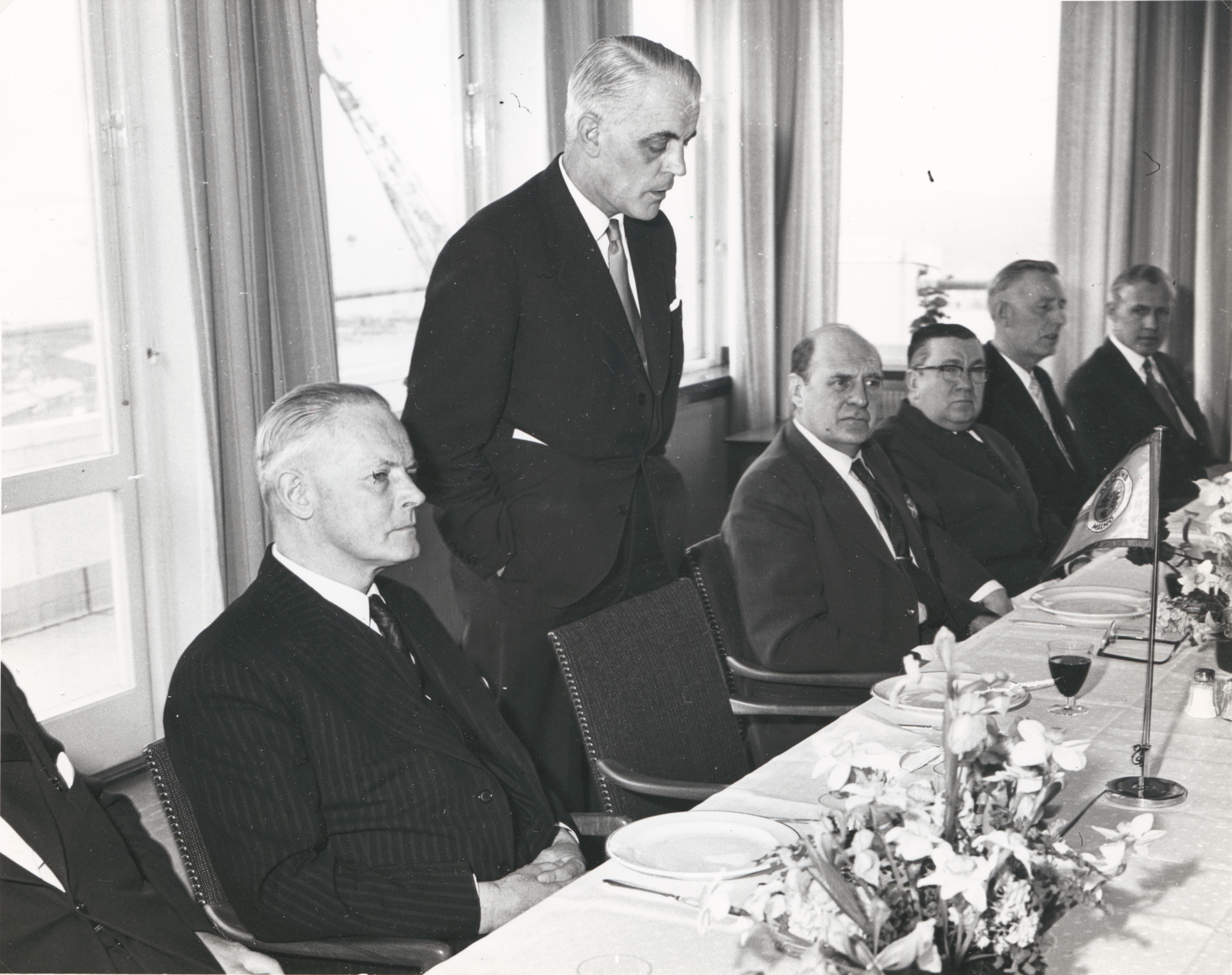 Gösta Lundeqvist resigns as CEO of Kockums and Nils Holmström takes over.